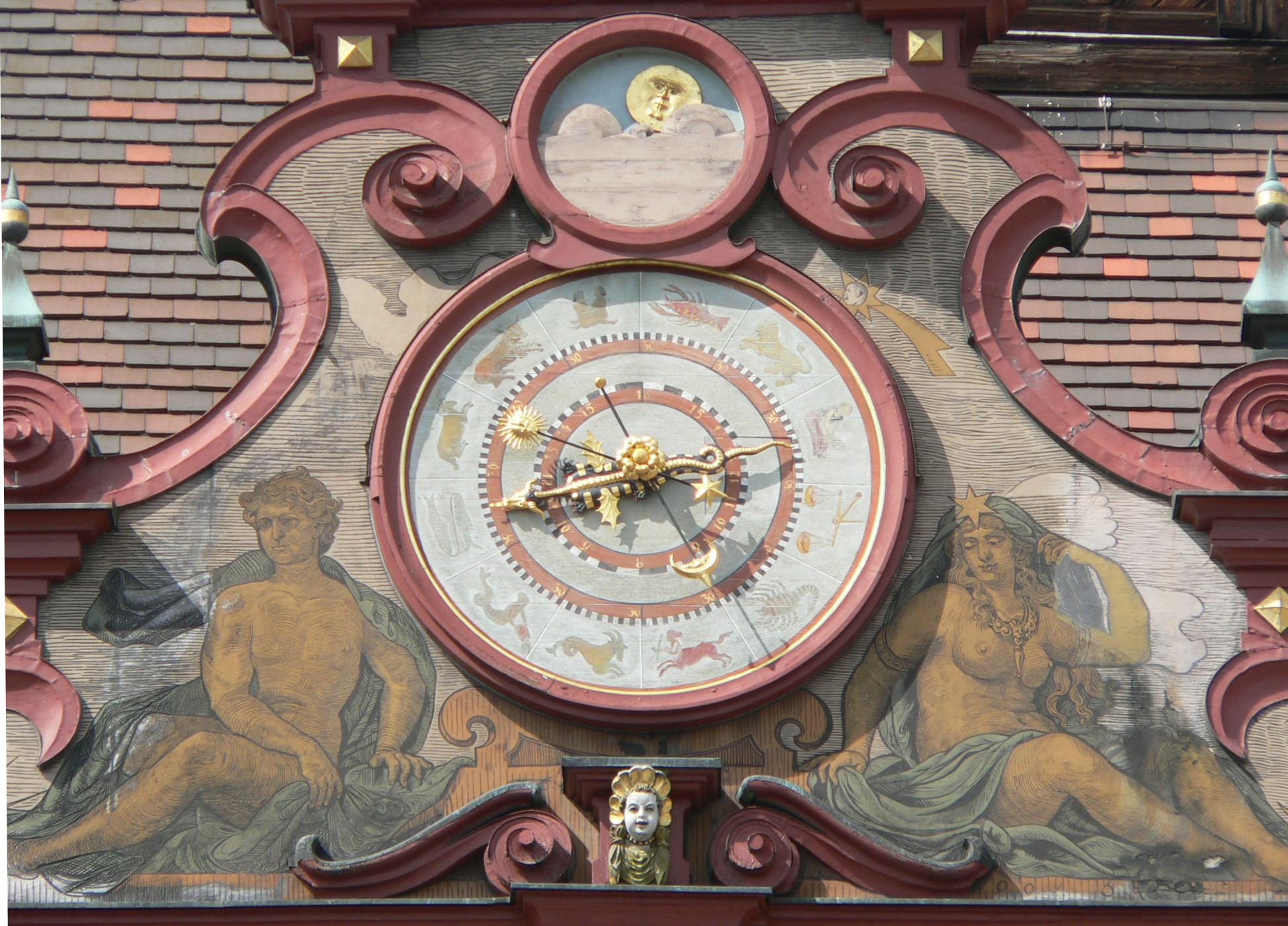 Astronomical clock on the city hall in Tübingen, Germany